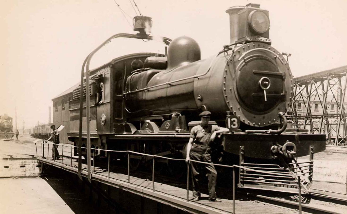 Class 6B 494 (4-6-0) Ex CGR (Western System) 206